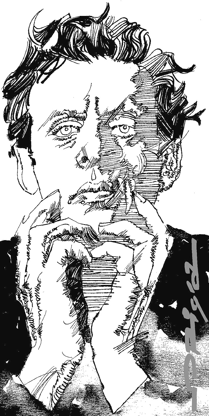 Philip Glass, portrait by italian artist Graziano Origa, pen&ink, 2008